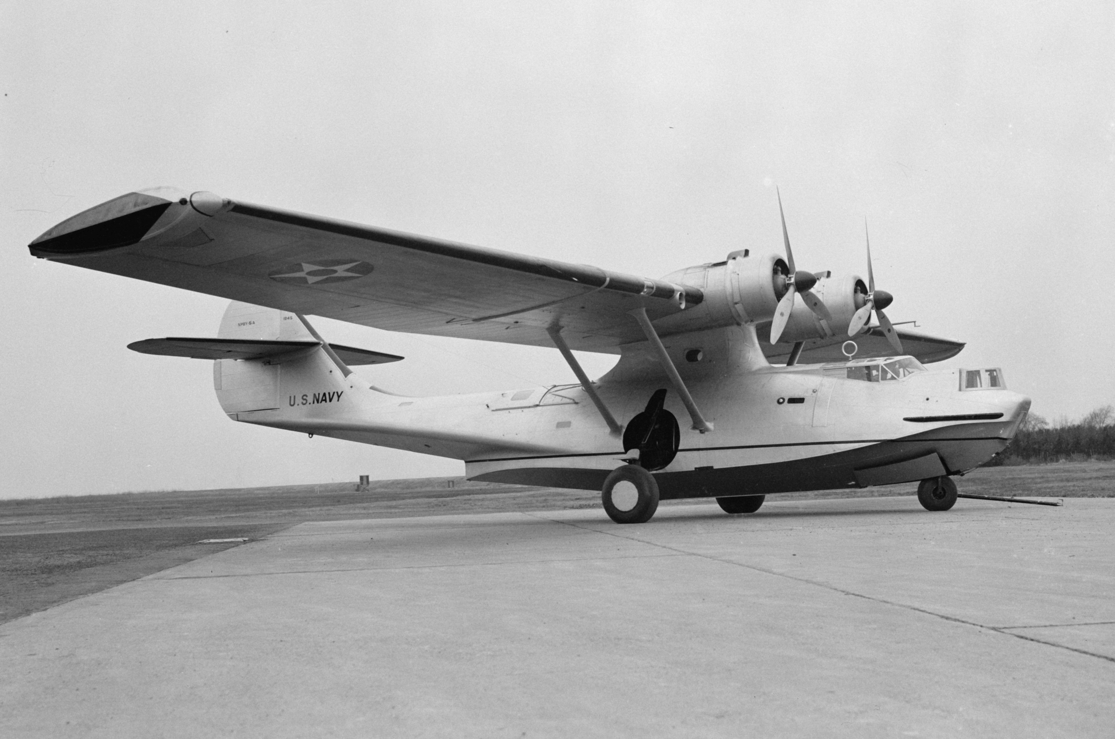 The U.S. Navy Consolidated XPBY-5A Catalina amphibian (BuNo 1245) at the Naval Air Station Anacostia, Washington D.C., on 18 December 1939. Original caption: “Navy's new 'mystery' plane. Washington, D.C., Dec. 18. The U.S. Navy's giant amphibian patrol ship which has arrived in the Capital from Florida. The huge plane was built secretly by the Consolidated Aircraft Corporation at San Diego, Calif. Of the high-wing type, the amphibian has a spread of 104 feet and is 65 feet long. Its amphibian floats fold into the wings. Twin wasp engines, built into the wing, provide the power.”